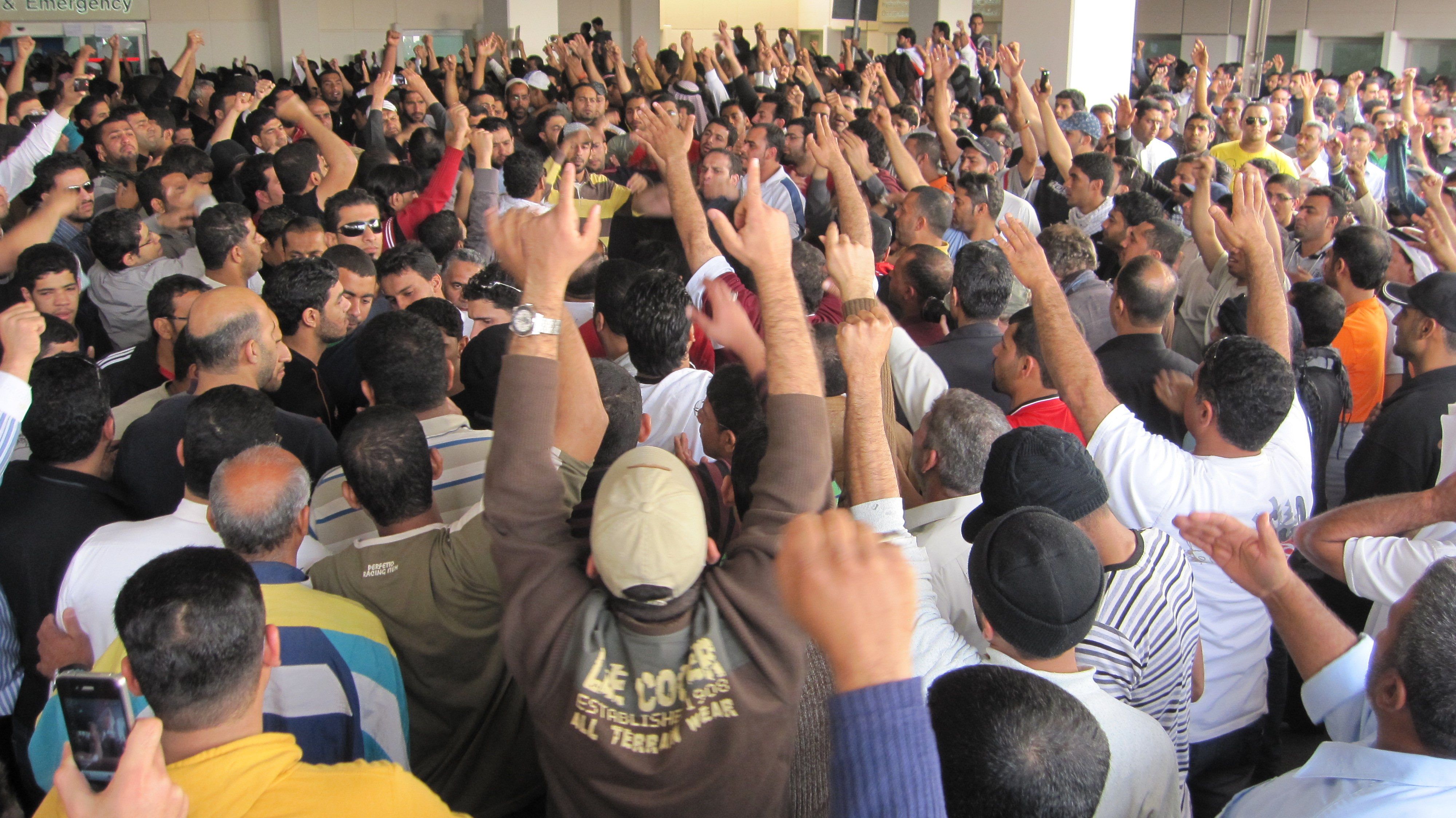 Yelling anti-government slogans such as "The people want the regime to resign".